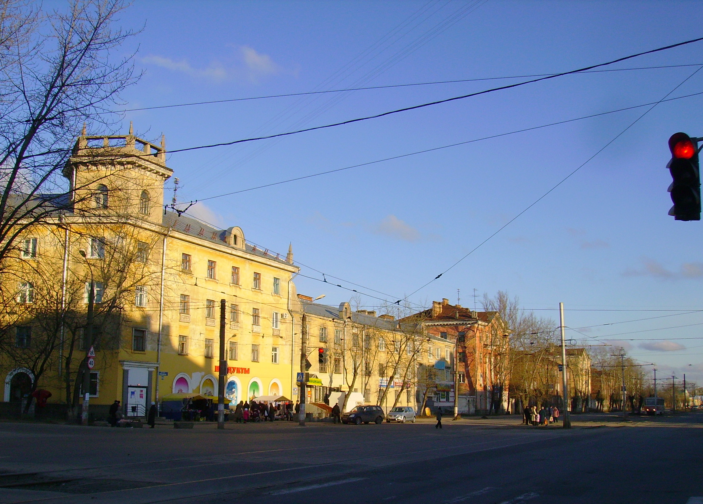 Corner of Chernyakhovsky Street & Lenin Avenue